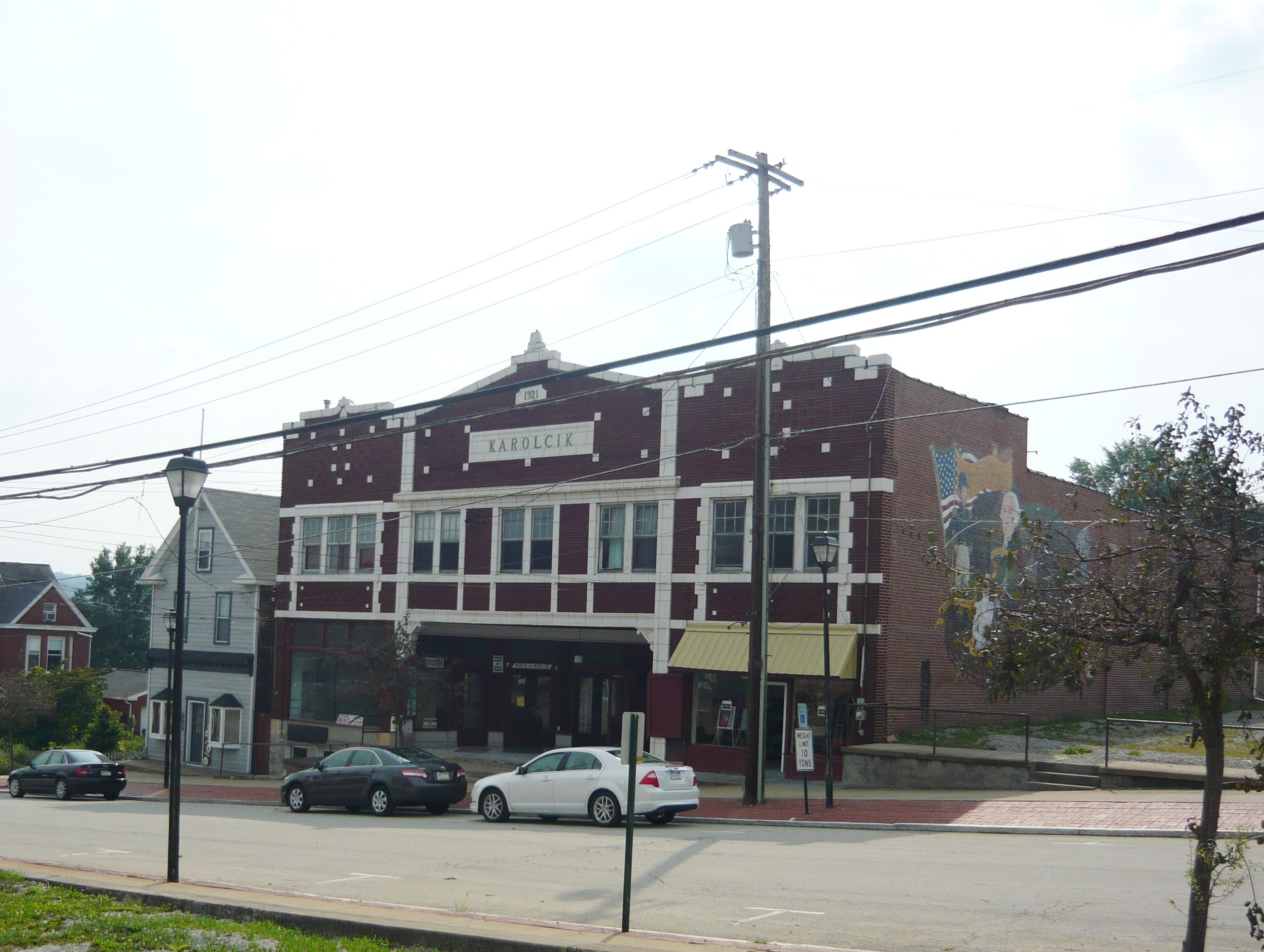 Karolcik Building , 115-117 South Liberty Street, Perryopolis, Fayette County, Pennsylvania. Built by Mike Karolcik in 1921, it originally contained a theater, bowling alleys, a butcher shop, and apartments.